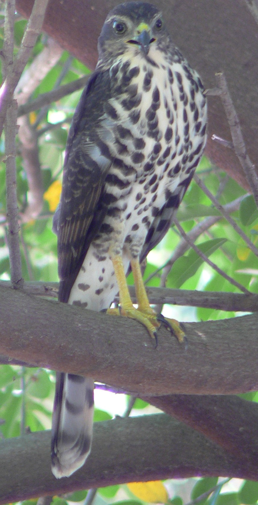 Juvenile Little Sparrowhawk Accipiter minullus, taken by Oom Kosie with a Panasonic FZ-5 camera in Swellendam, South Africa. The bird is perched on a type of wild fig tree. This shot was taken in an urban garden.